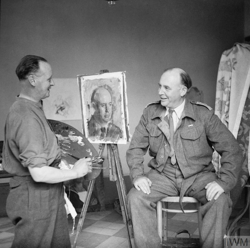 Captain Henry Carr paints fellow war artist Captain Edward Ardizzone's portrait in Italy